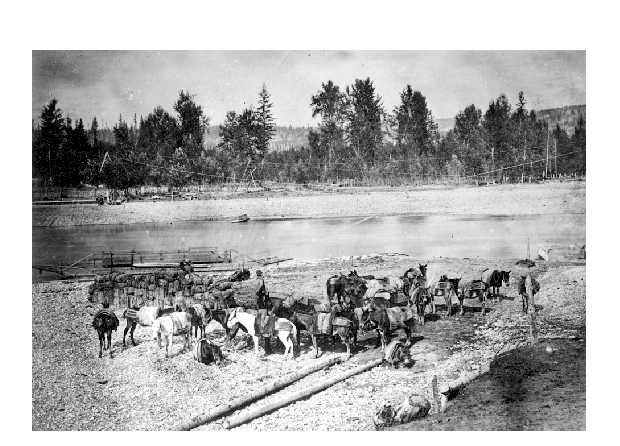 Photo taken 1868 Photographer: Frad Dally Source: #A-04036 [1]